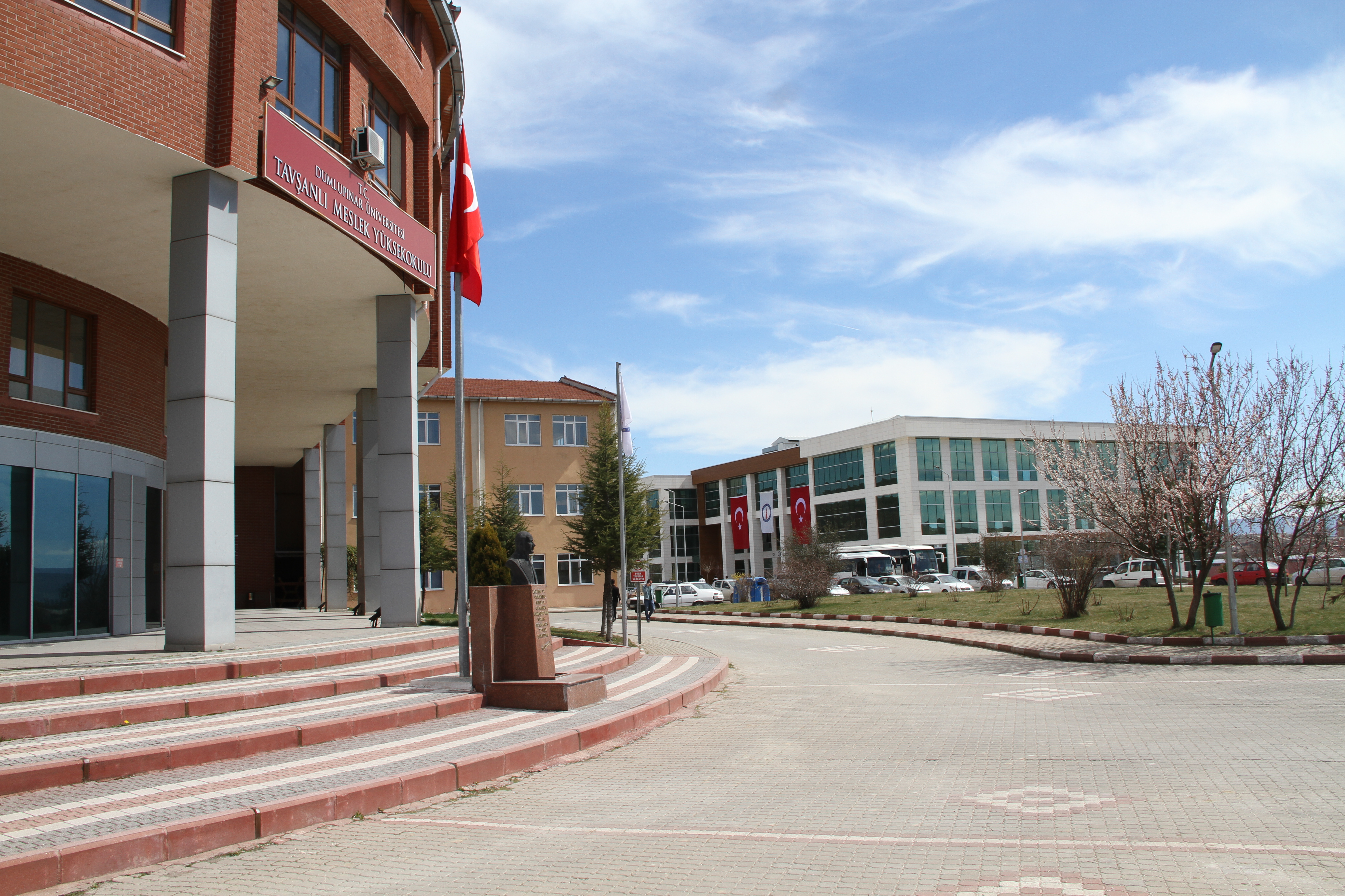 Tavsanli Vocational School (left) and Tavsanli Faculty of Applied Sciences (behind the right) at DPÜ Tavşanlı Campus